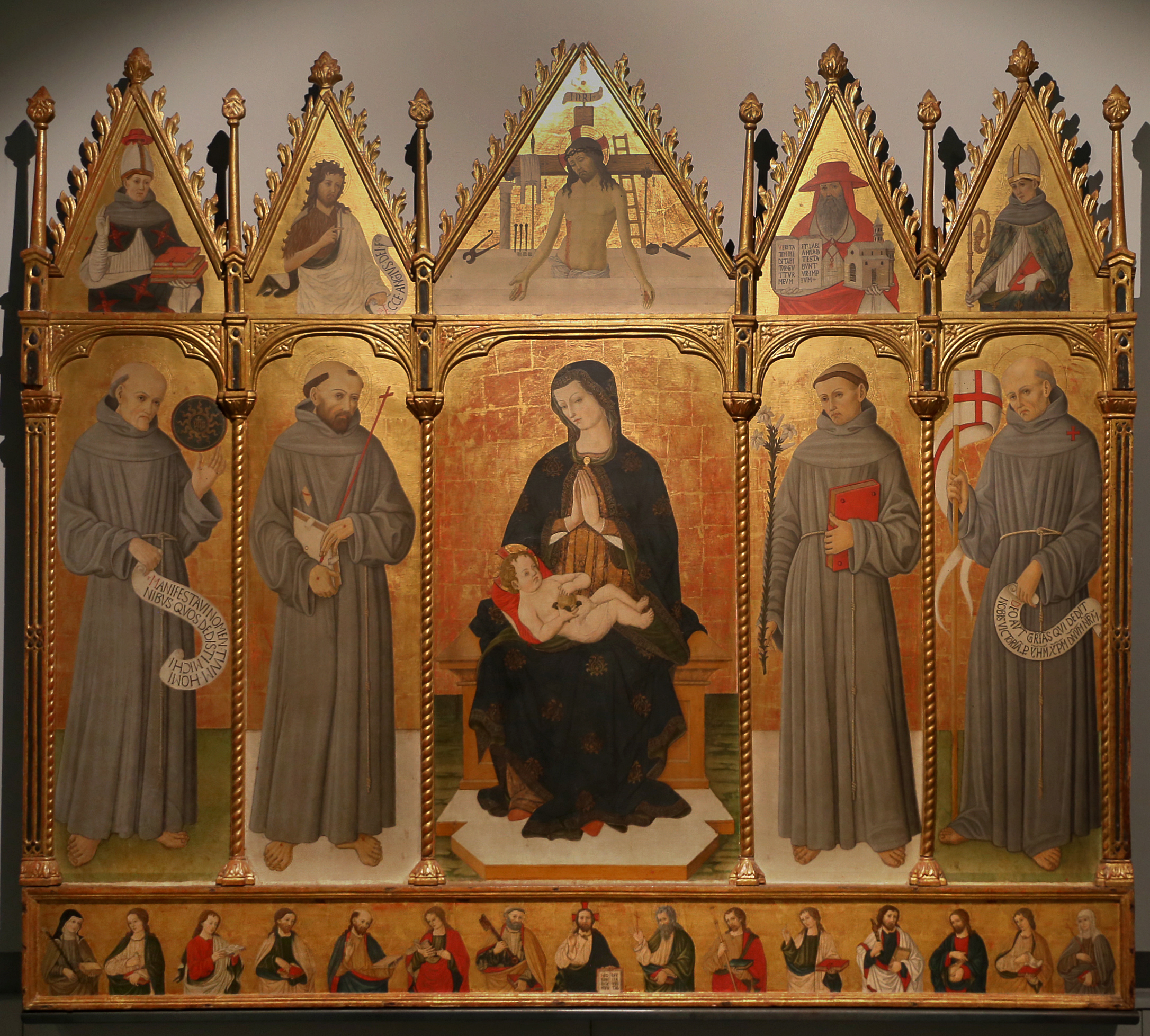 San Giovanni a Capestrano Polyptych